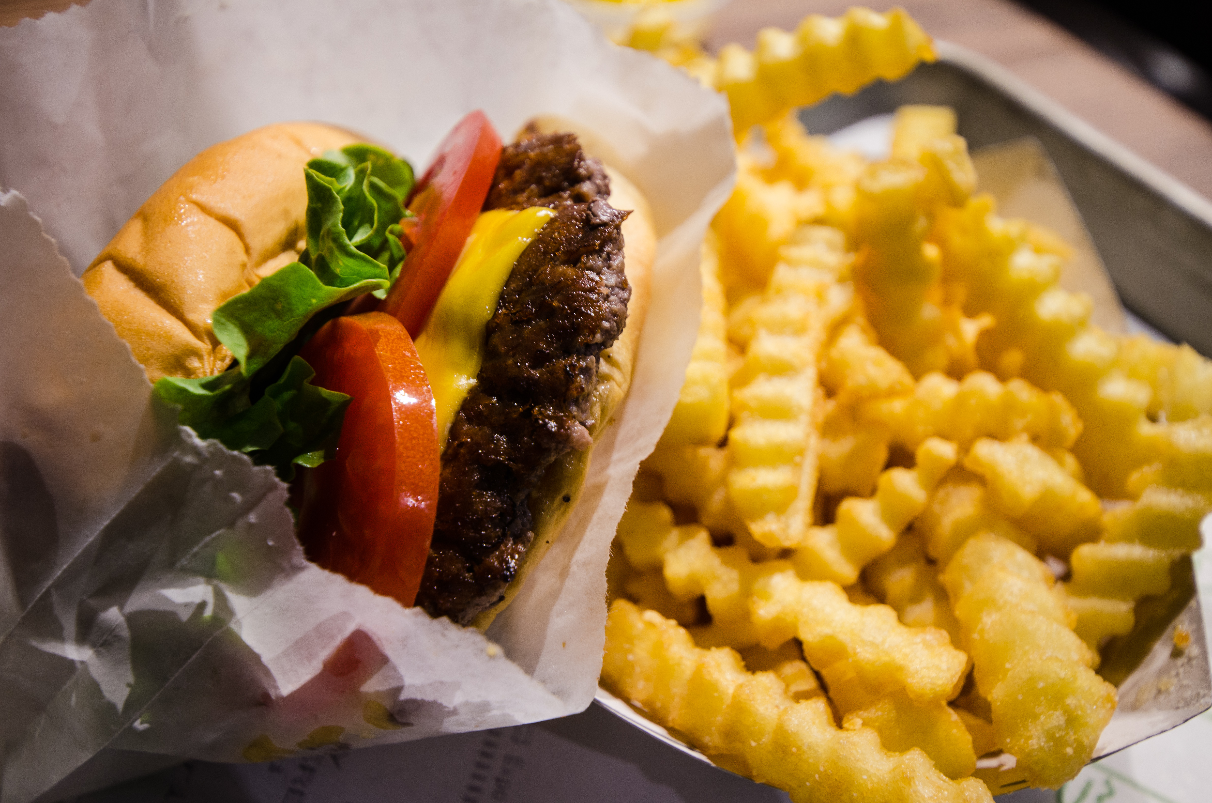 Shake Shack burger and fries Shack burger and shack fries in New Haven, CT